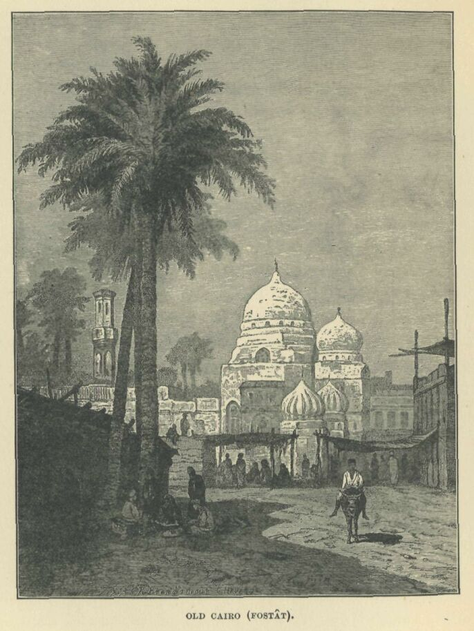 Drawing of the old Egyptian capital, Fostat, aka Fustat, aka Misr